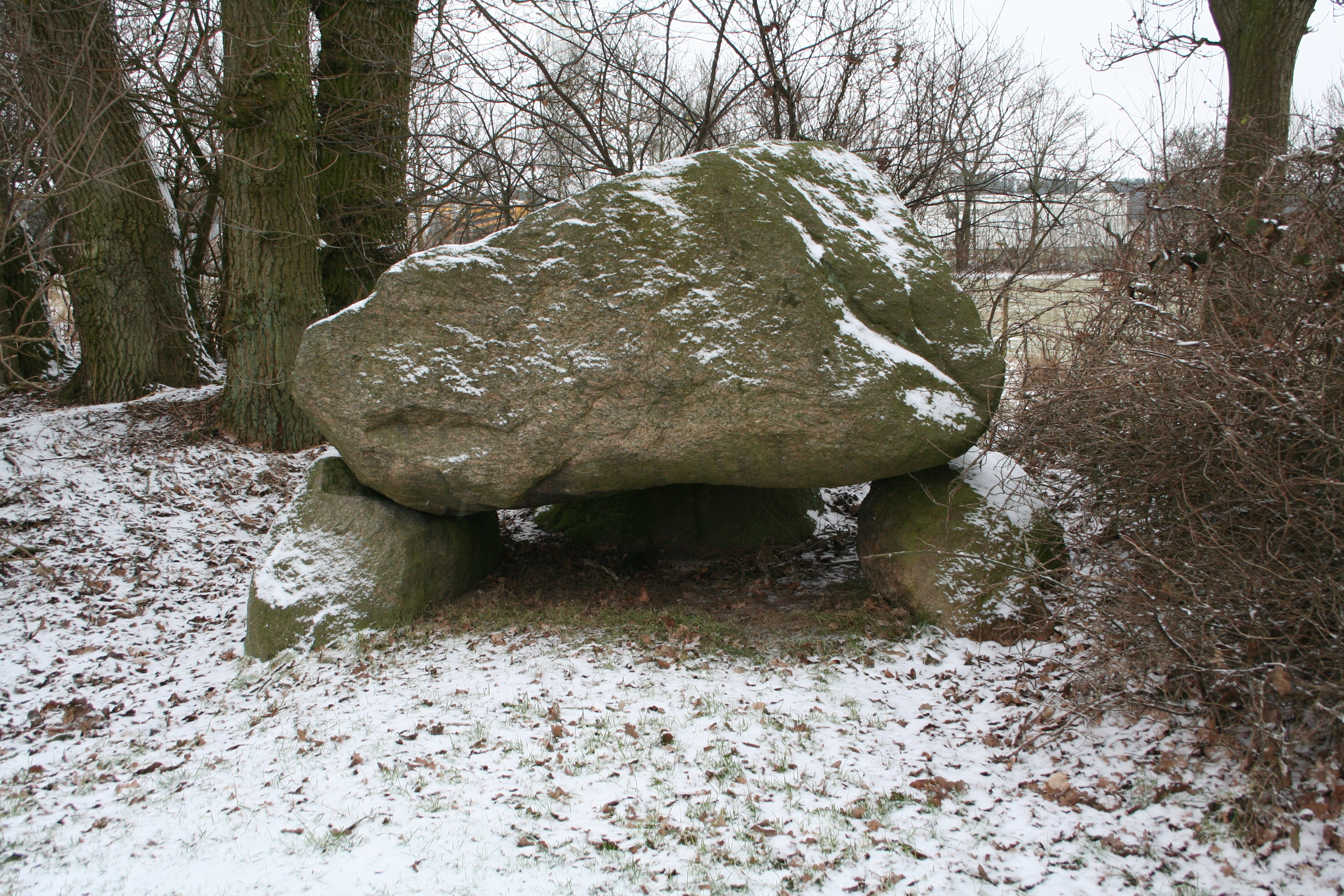 Megalithic tomb at Wanhöden